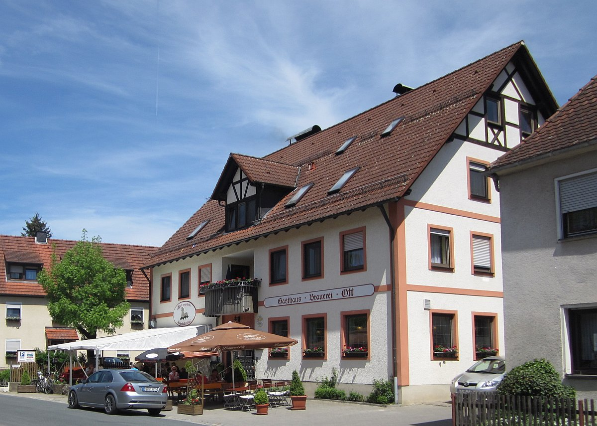 Brewery Ott in Oberleinleiter (Heiligenstadt, Franconian Jura)